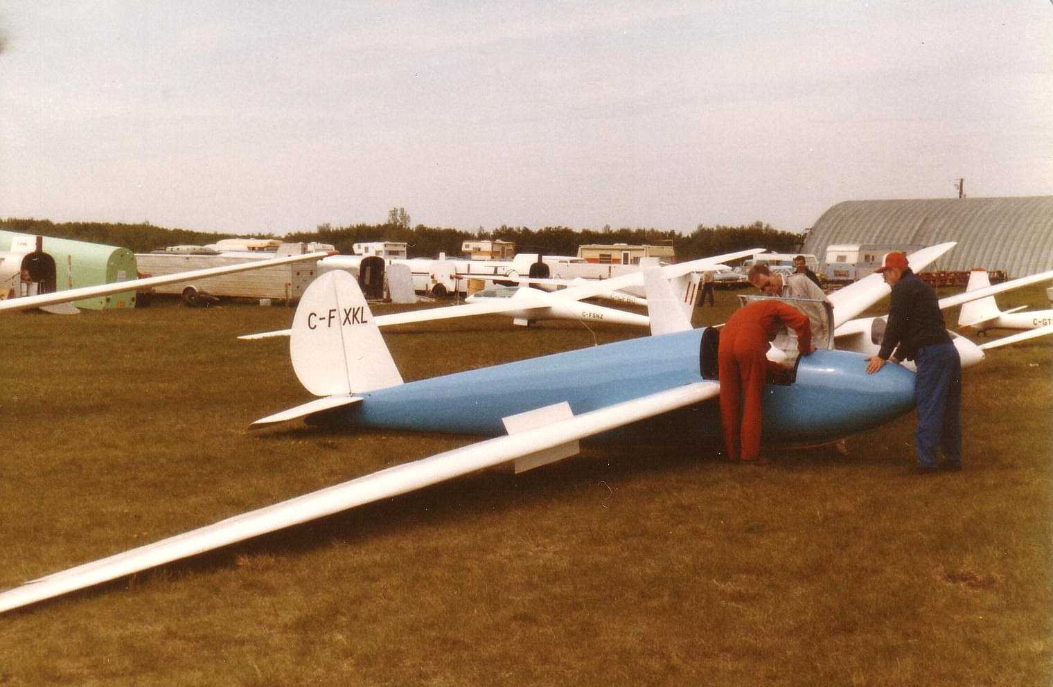 I took this photo of Schweizer SGS 1-23D C-FXKL at the Edmonton Soaring Club, Chipman in 1984.